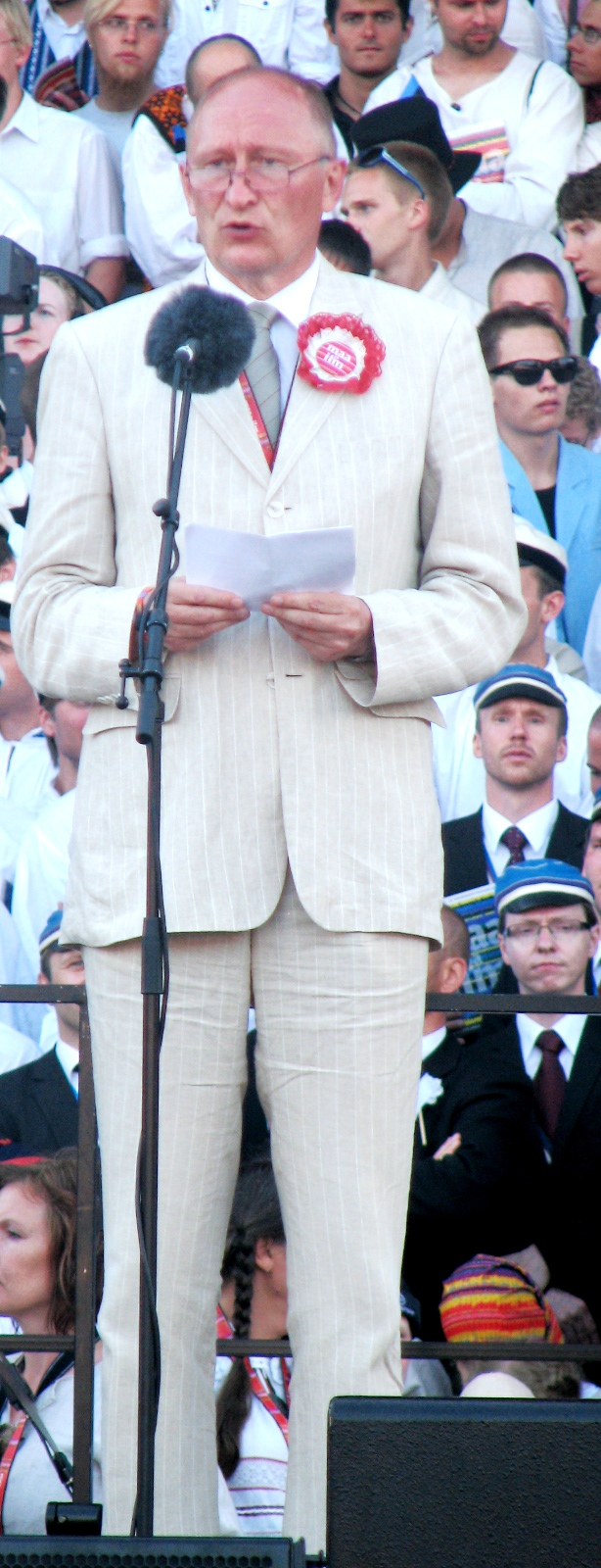 Jaak Aaviksoo performing in 11th Youth Song and Dance Celebration